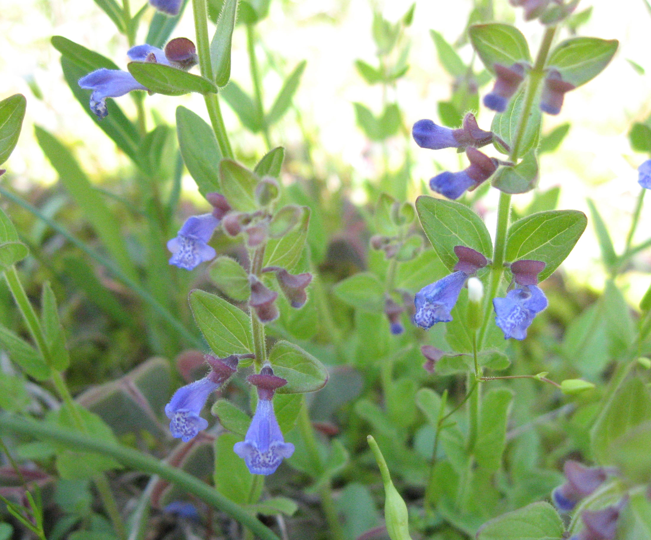 Scutellaria parvula in a cedar glade at Cedars of Lebanon State Park, Wilson County, Tennessee